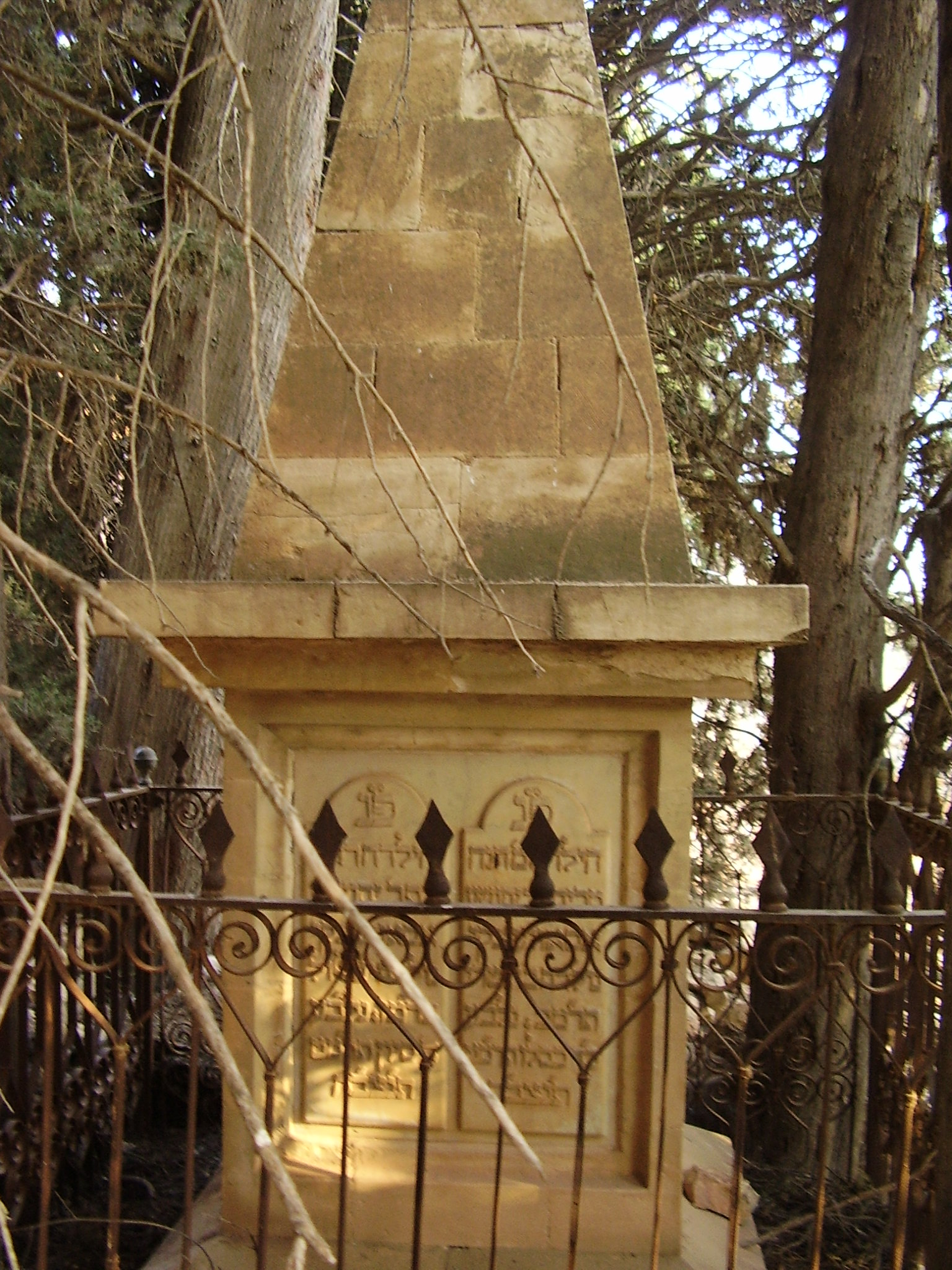 rosh-pina cemetery, israel